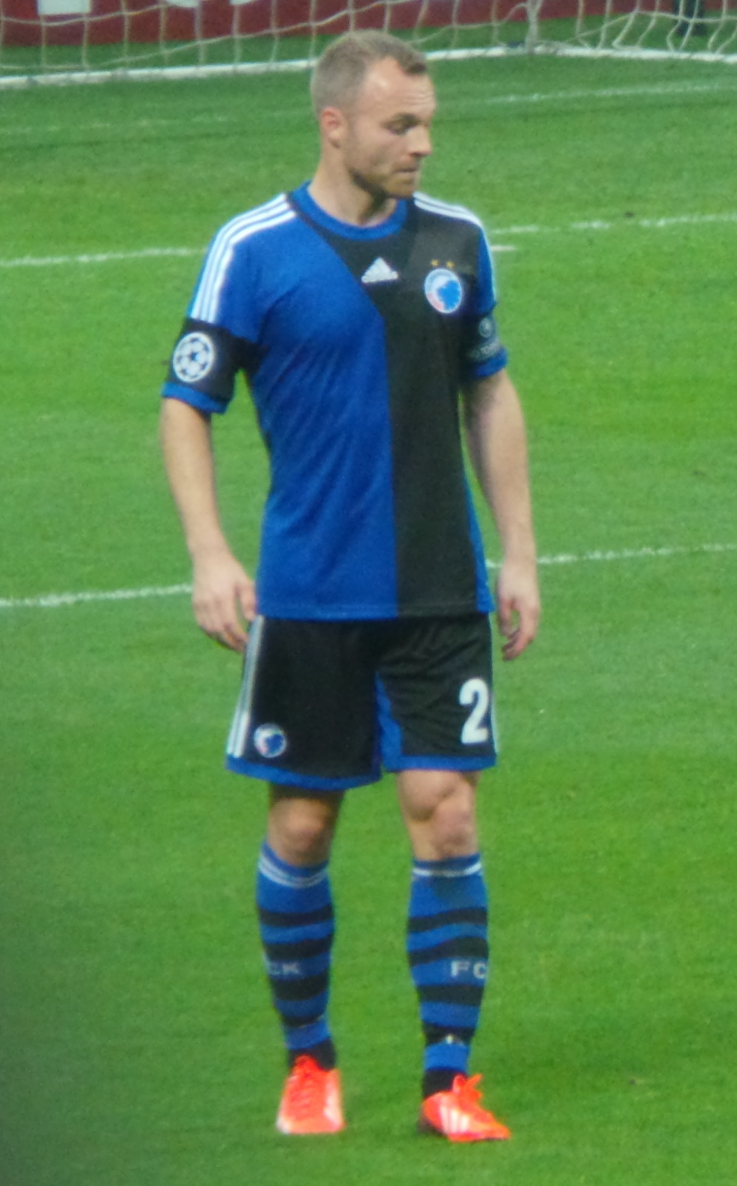 Lars Jacobsen